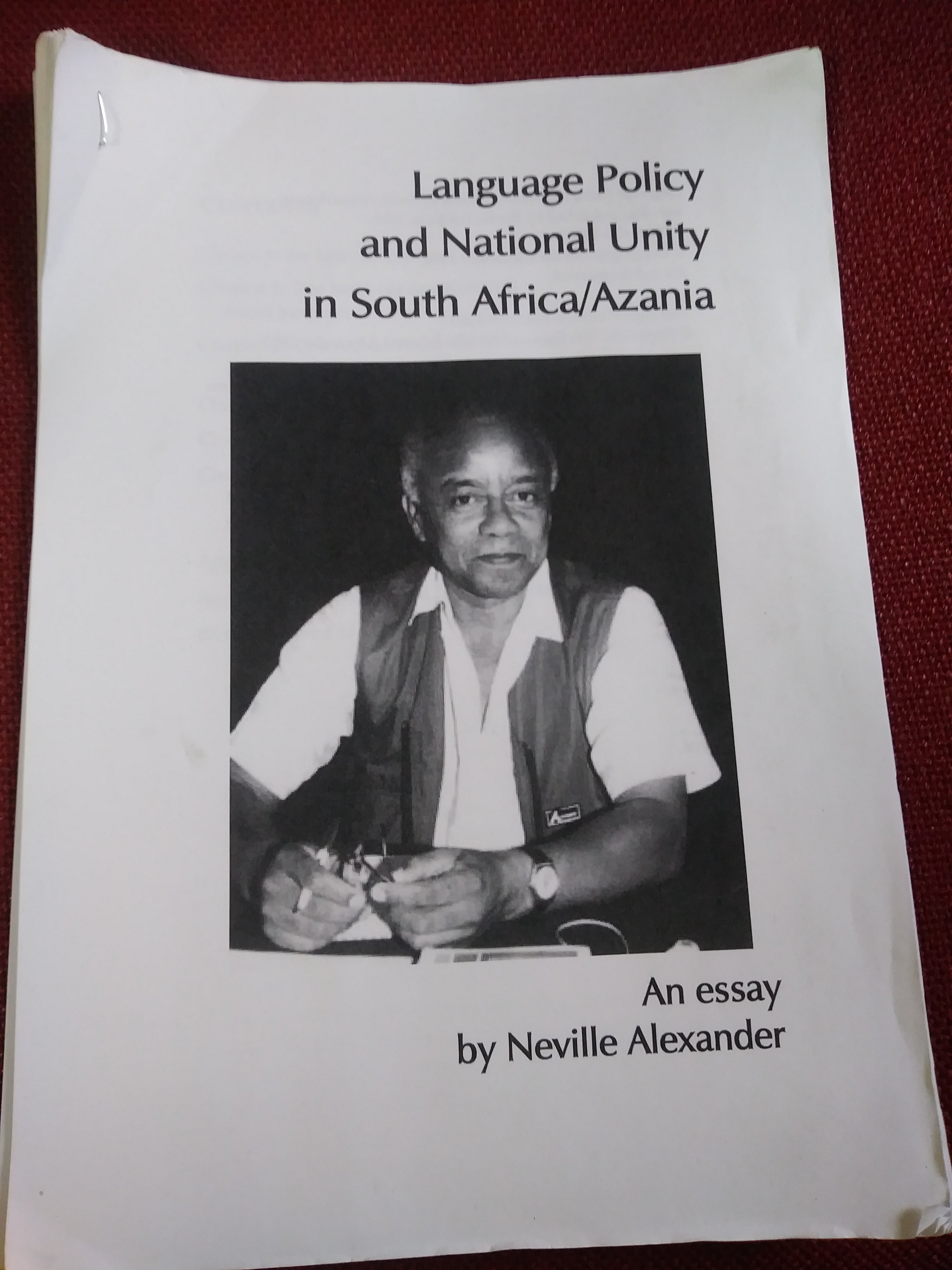 Neville Alexander; 'Language Policy and National Unity in South Africa/Azania' , 1989